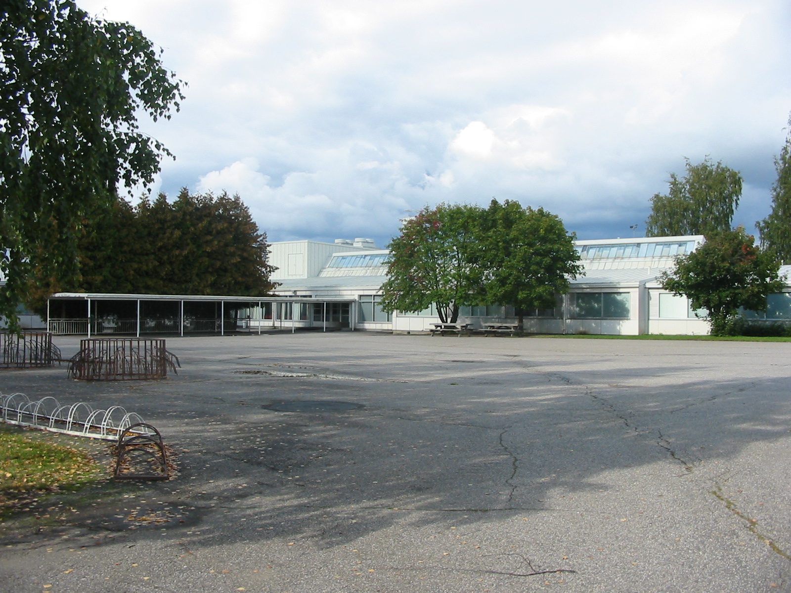 Kiiruun koulu (formerly Someron yhteiskoulu) in Somero, Finland. De building was designed by the architecht Aarne Ervi